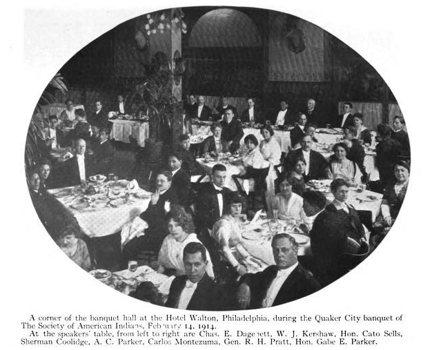 The Society of American Indians, Philadelphia, Pennsylvania, February 14, 1914. Other information No.